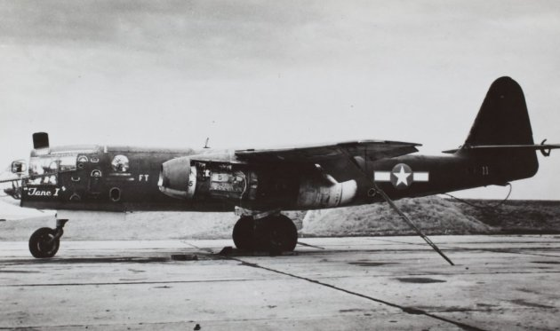 PictionID:38234751 - Catalog:Array - Title:Array - Filename:15_002281.TIF - -------Image from the Charles Daniels Photo Collection.----Album: German Aircraft.-----------PLEASE TAG these images with any information you know about them so that we can permanently store this data with the original image file in our Digital Asset Management System.-----------------SOURCE INSTITUTION: San Diego Air and Space Museum Archive